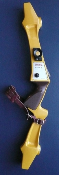 YAMAHA YTSL II Archery Raiser